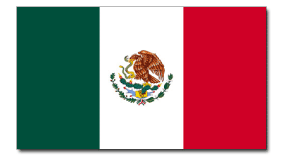 History People Languages Traditions Mythology and folklore Cuisine Festivals Religion Art Literature Music and performing arts Media Sport Monuments Symbols